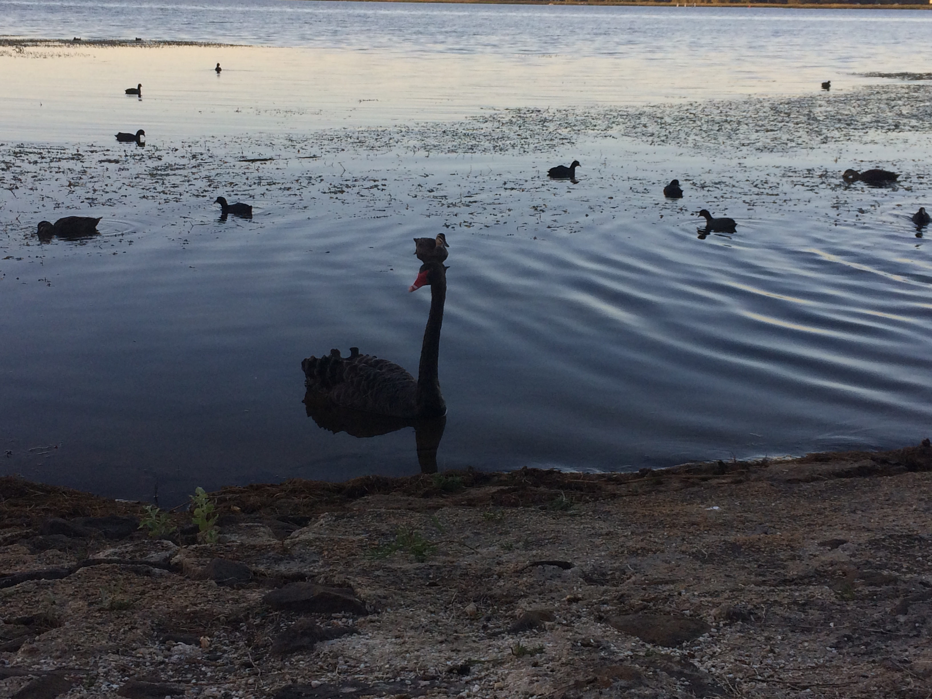 A swan, floating close to a rocky shore, with other birds in the background